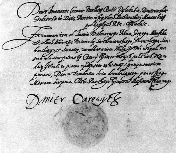 A letter written by False Dmitriy I to Jerzy Mniszech.